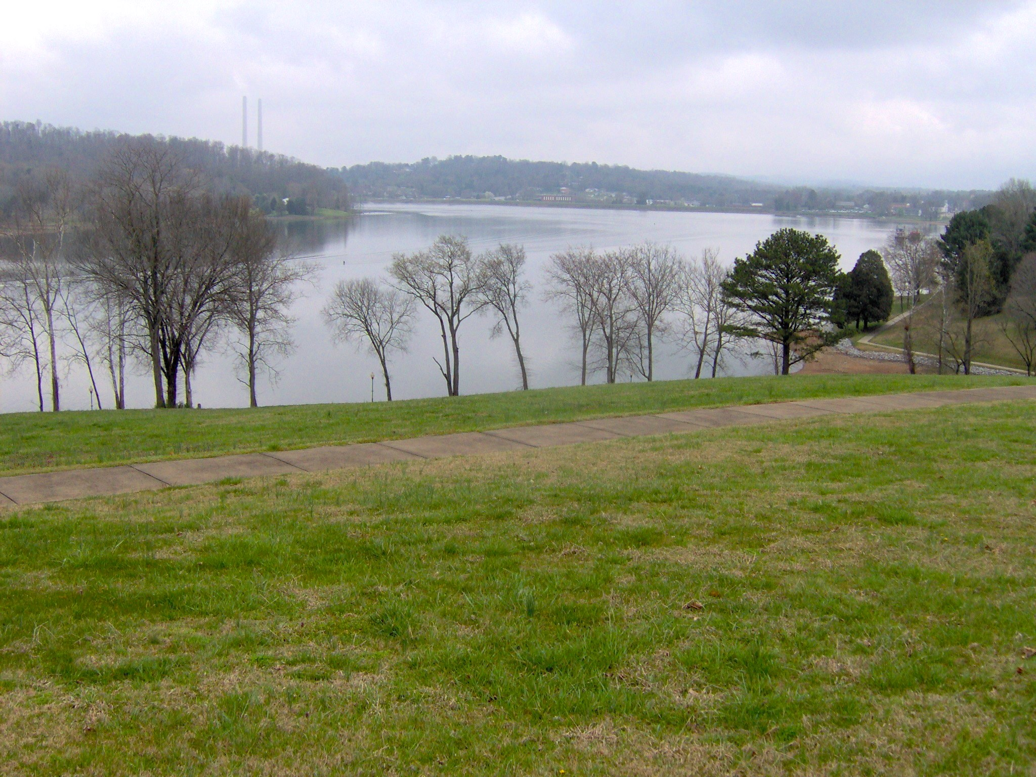 The Clinch River, viewed from the Fort Southwest Point site in Kingston, Tennessee, in the southeastern United States. The smokestacks of Kingston Fossil Plant are visible in the distance.